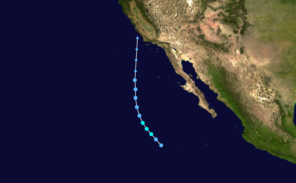 Tropical Storm Ignacio (1997) track. Uses the color scheme from the Saffir-Simpson Hurricane Scale.